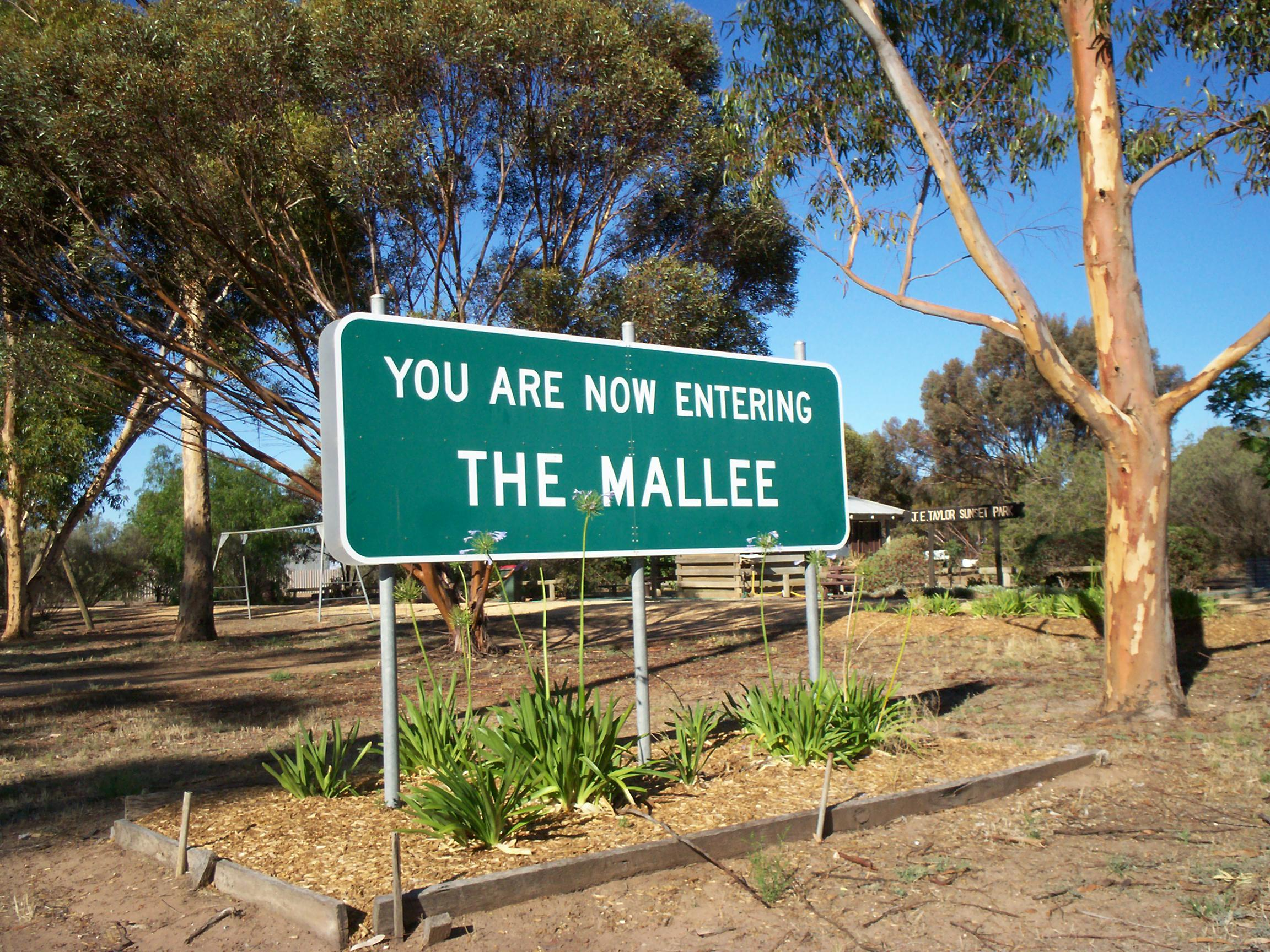 Entering The Mallee, on the Sunraysia Highway, Victoria. Photograph taken by myself.